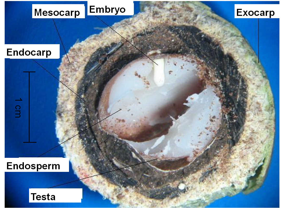 The picture shows the fruit shell composition of an Acrocomia stone fruit